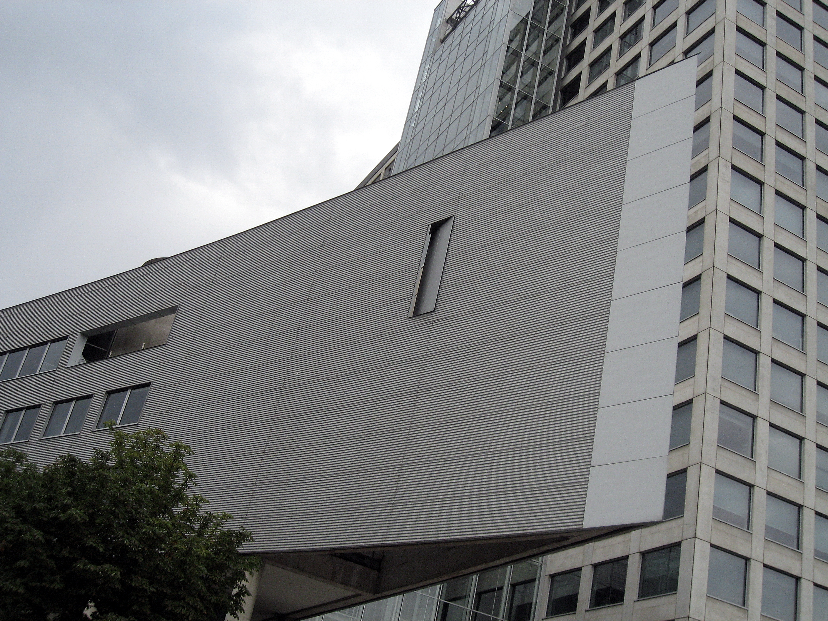 Dortmund, Harenberg City-Center